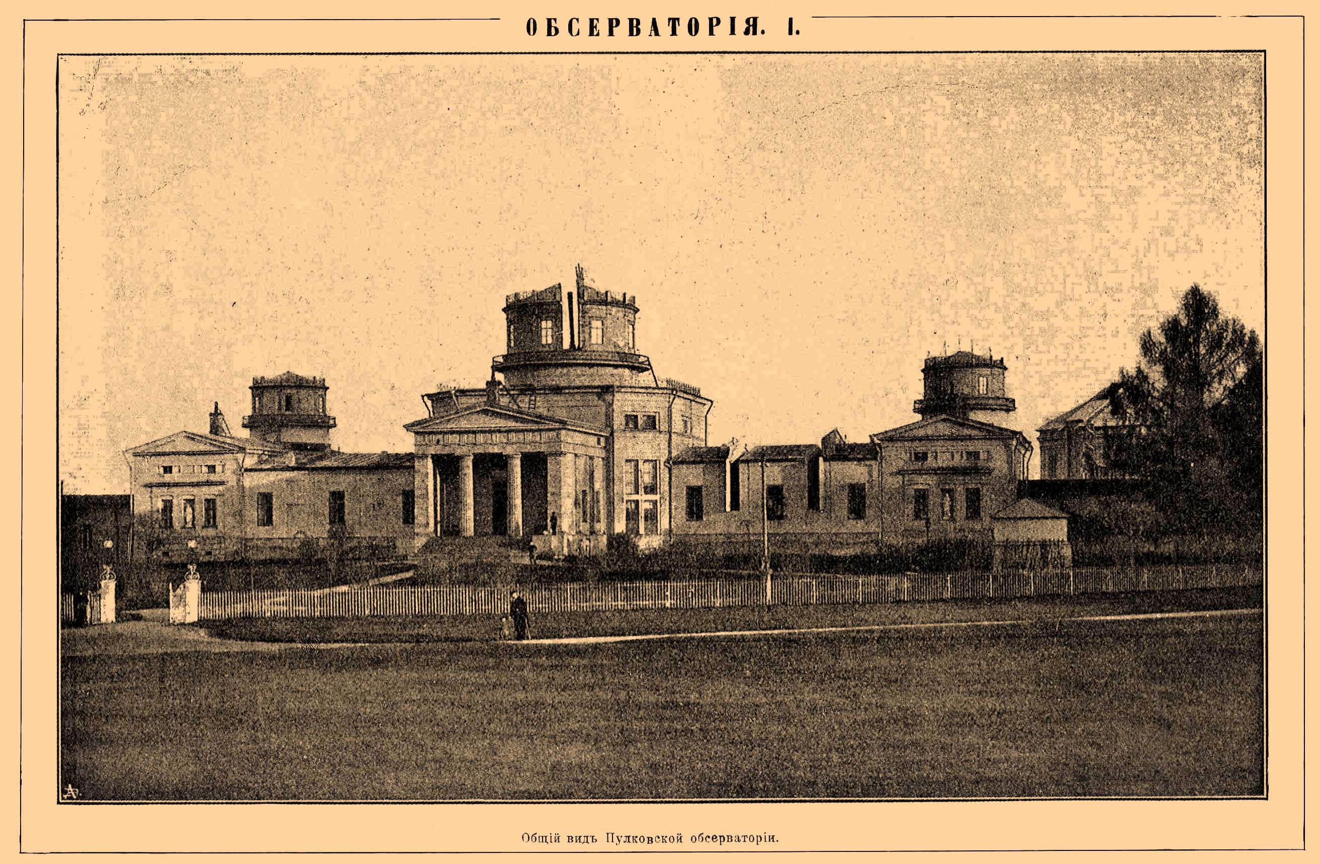 Illustration from Brockhaus and Efron Encyclopedic Dictionary (1890—1907)